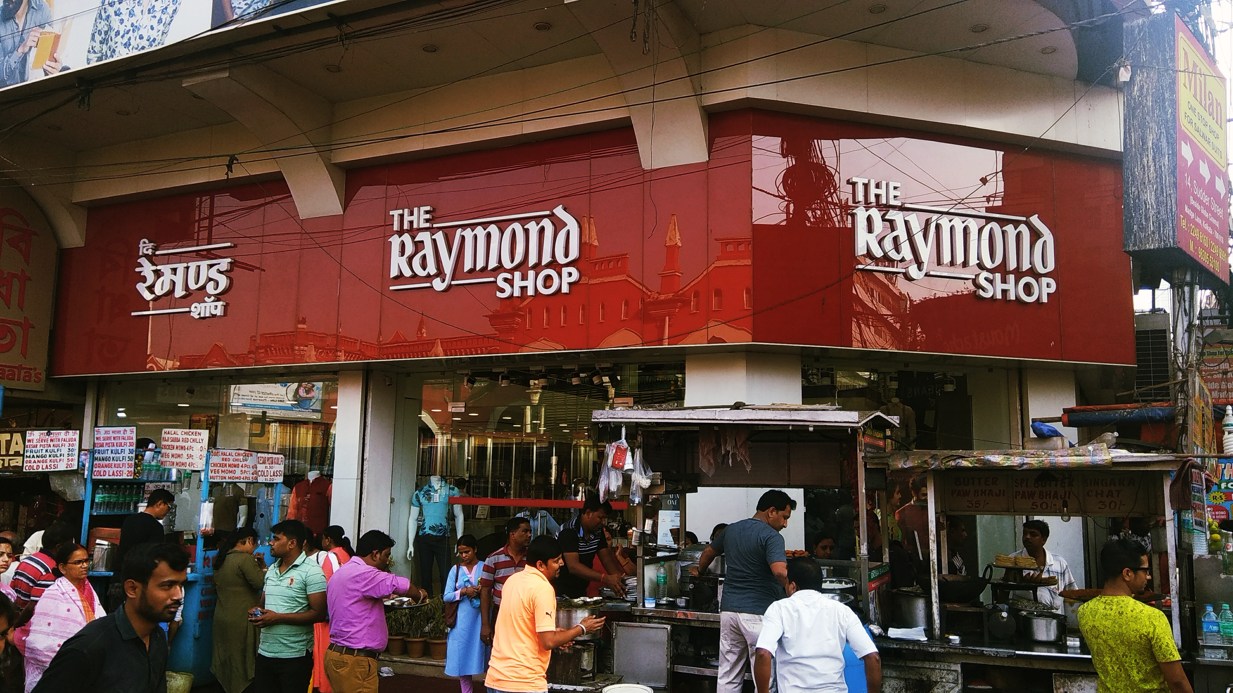 Raymonds Store in Esplanade, Kolkata This store is Present on the street, just opposite New Market (Sir Stuart Hogg Market) Picture taken on 26 February 2018, Monday, 3:31 pm Xiaomi Redmi Note 4, f/2.0 1/192 ISO100 distance-3.57m (no flash)